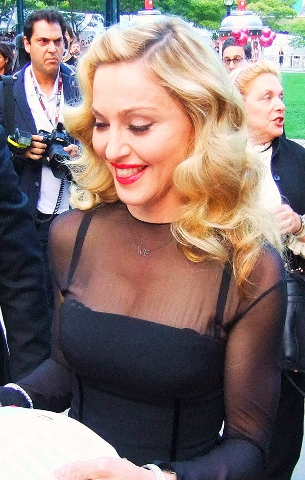 Madonna, the original Material Girl, shows up at the premier of her directorial movie W.E. @ Roy Thompson Hall Sept 12 2011